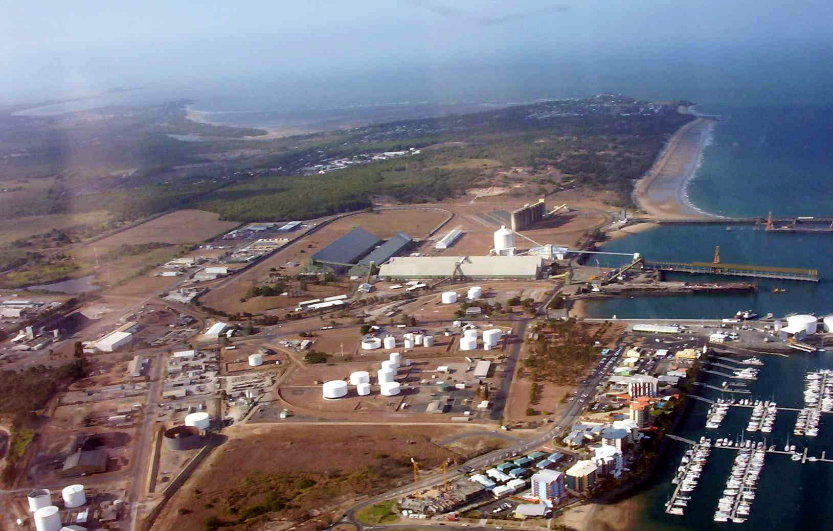 Photo I took of Mackay, Queensland, Australia, from a helicopter, in December 2005.